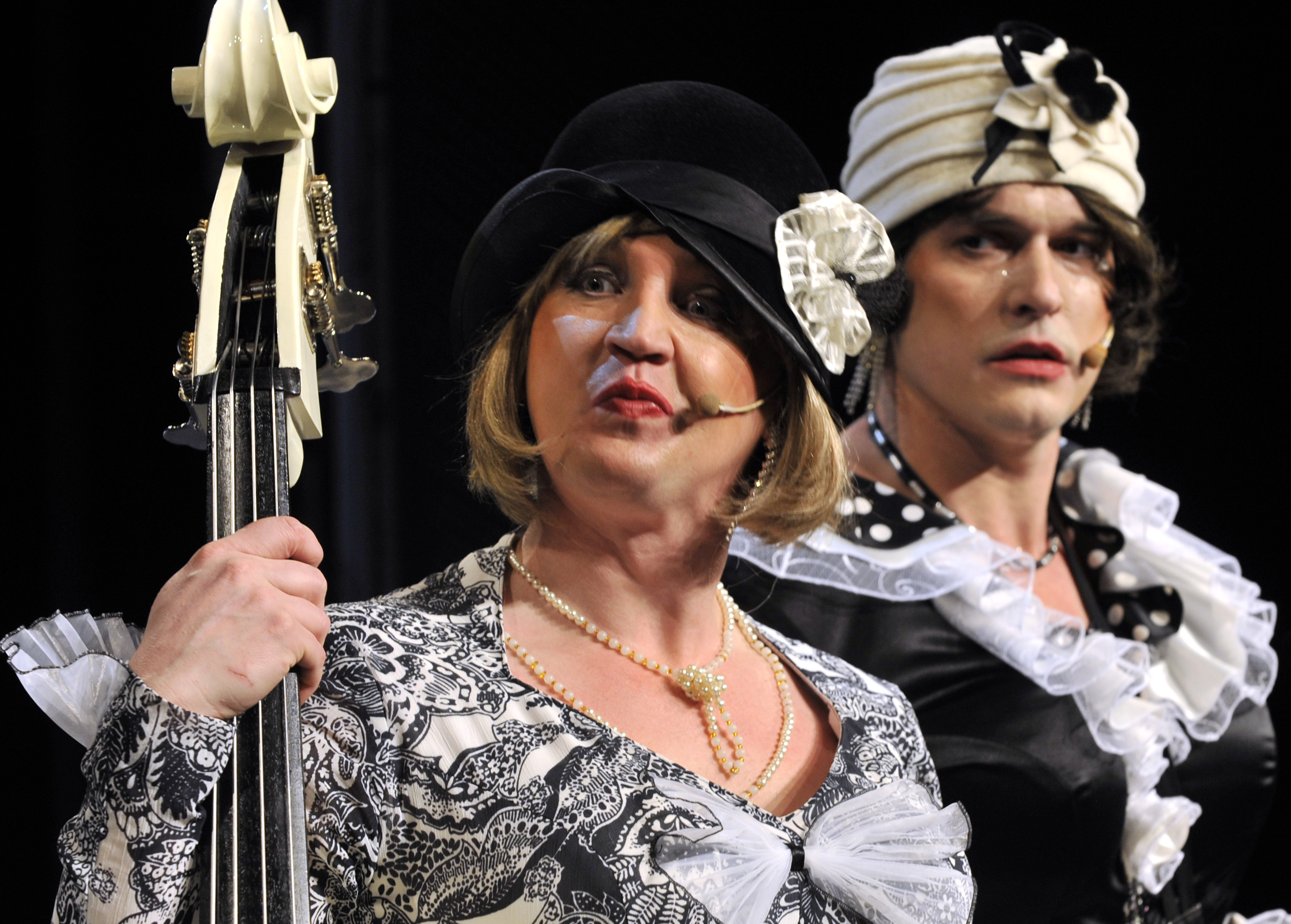 Sugar (Někdo to rád horké) by Brno City Theatre (Milan Němec and Petr Štěpán)